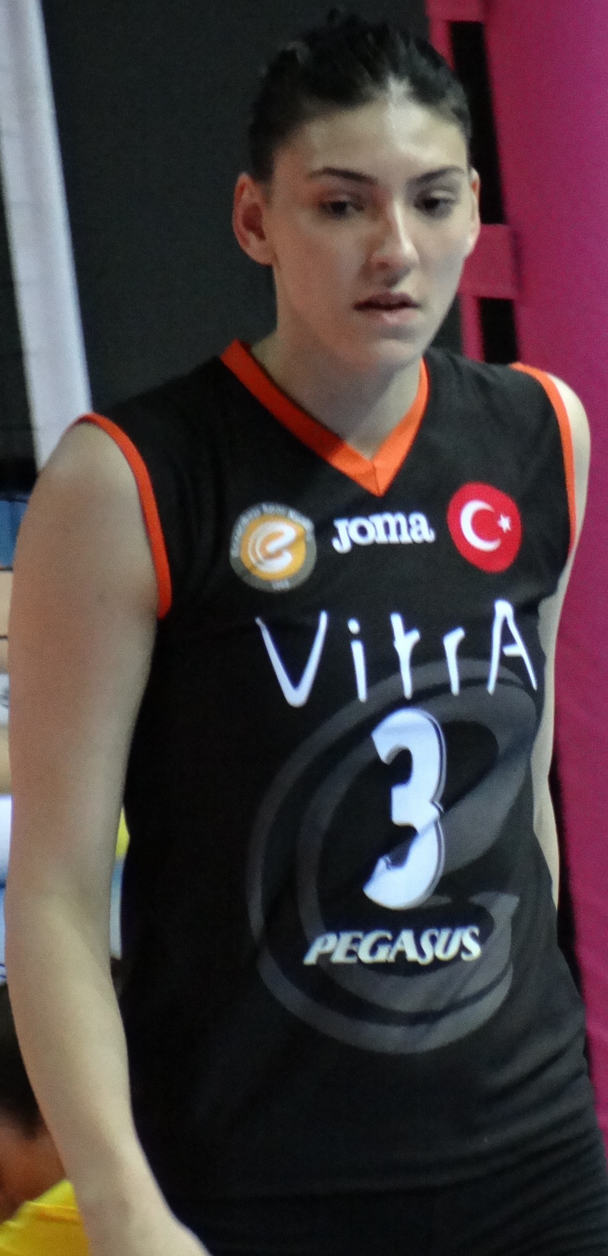 Tijana Bošković 3 Eczacıbaşı VitrA TWVL 20180426